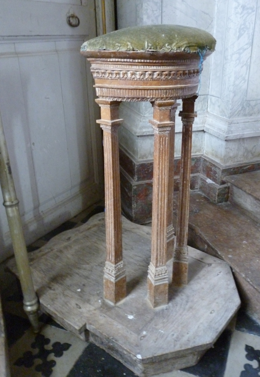 One of the Neoclassic-louis XVI cantor-stools in the church Sainte-Trinité of Morsan (Eure, France).